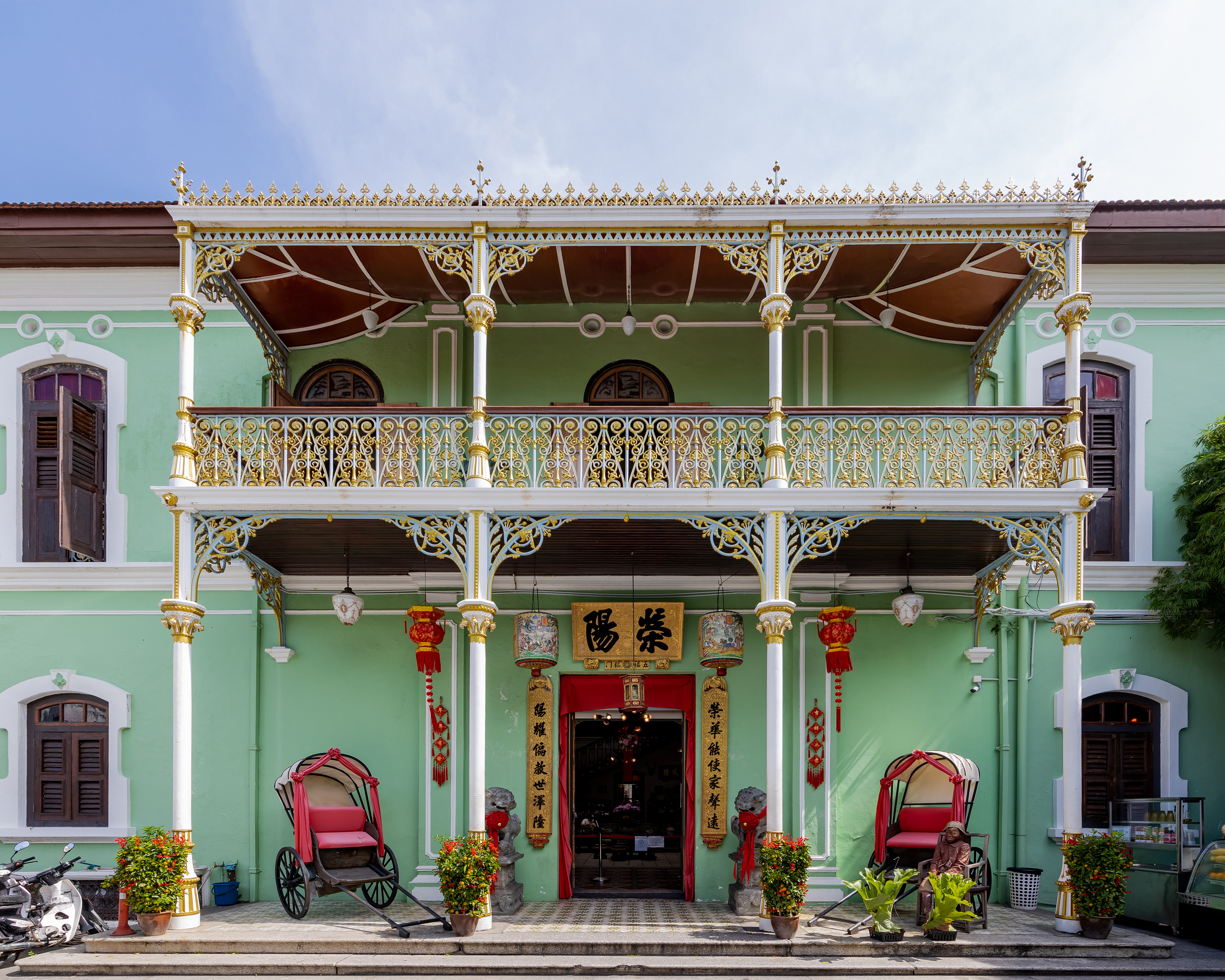 The Pinang Peranakan Mansion (Malay: Rumah Agam Peranakan Pulau Pinang) in George Town, Penang, Malaysia, is a museum dedicated to Penang's Peranakan heritage. The museum itself is housed within a distinctive green-hued mansion at Church Street, George Town, which once served as the residence and office of a 19th-century Chinese tycoon, Chung Keng Quee.